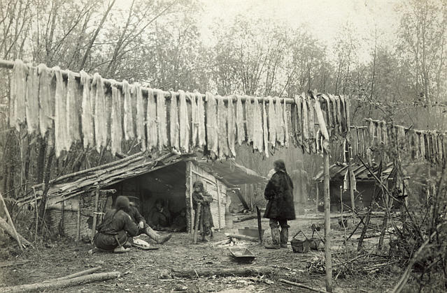 Nivkh summer village. Start of XX. century (early 20th century).